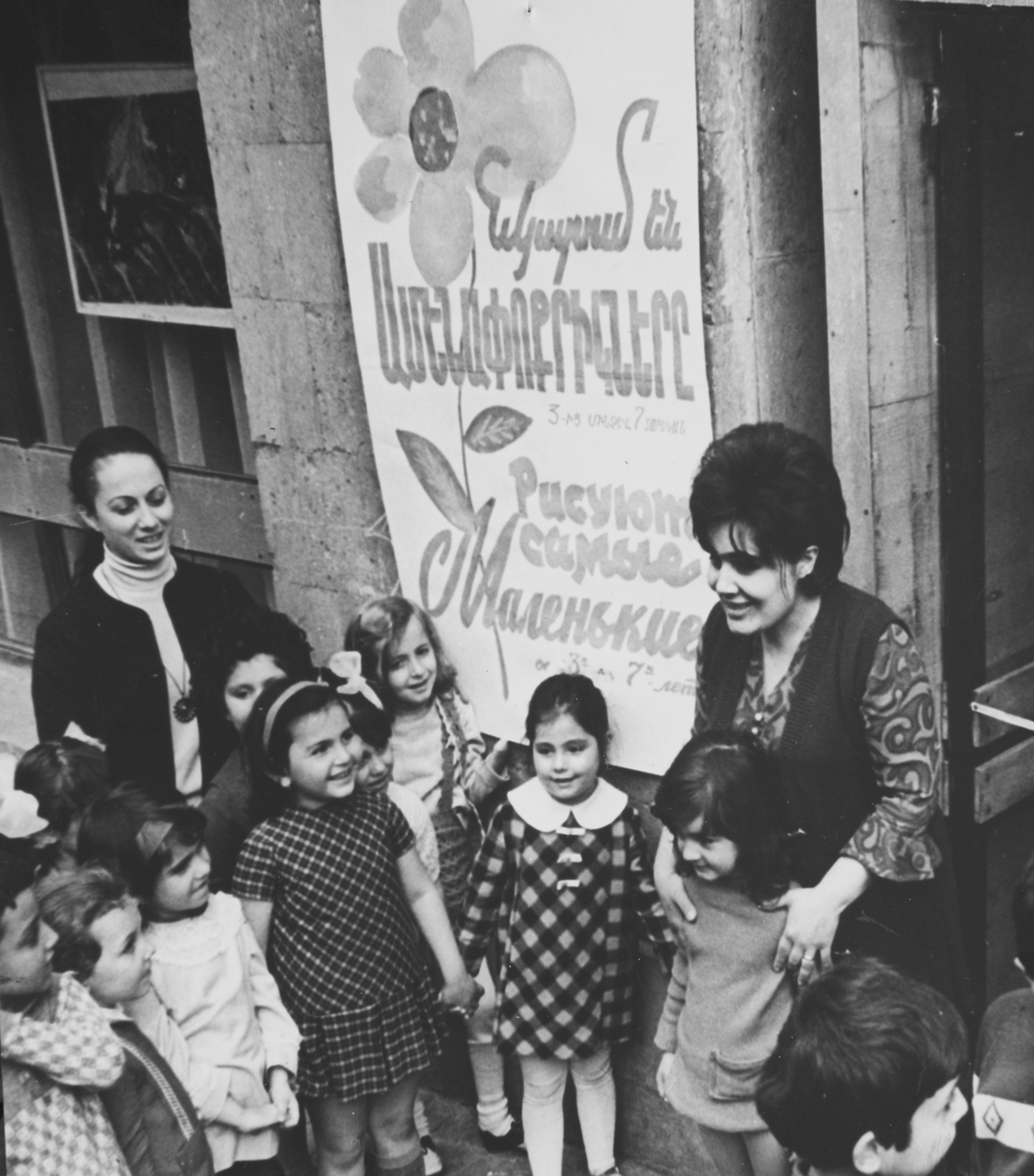 Children's art exhibition opening ceremony with Janna Aghamiryan